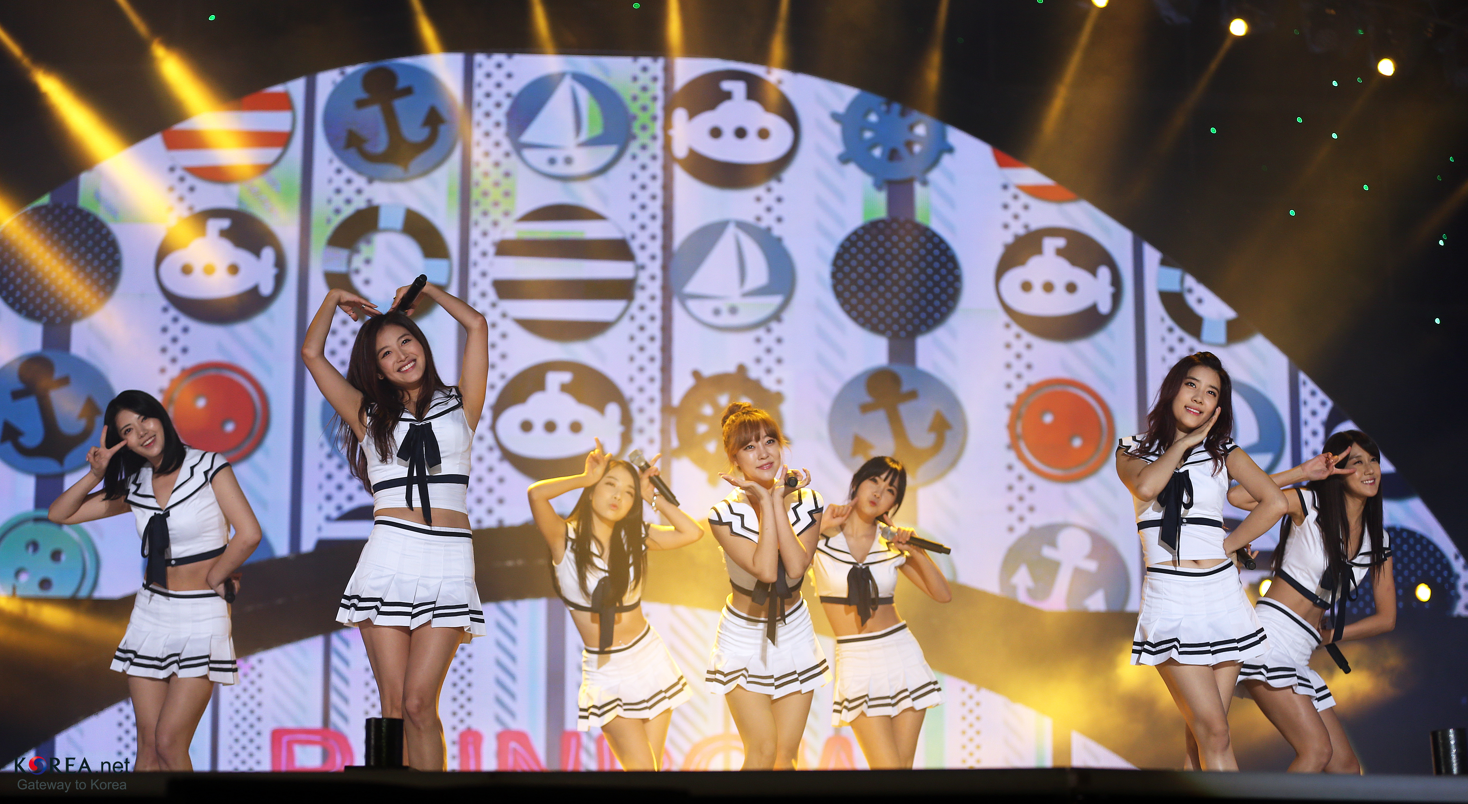 2013 K-POP World Festival in Changwon October 20, 2013 Changwon-si, Gyengsangnam-do Related Articles Cheong Wa Dae K-Pop World Festival unites global fans -English K-Pop World Festival unites global fans -中文 “2013 K-POP世界庆典” 用K-POP连结全世界 -Vietnamese Cả thế giới hội tụ tại “K-pop World Festival 2013” -日本語 「Kポップワールド・フェスティバル2013」、Kポップで世界が一つに -Deutsch „K-Pop World Festival” bringt internationale Fans zusammen -Francais Un festival mondial de la K-Pop 2013 de haute volée -Russian K-Pop World Festival объединяет фанатов со всего мира -Arabic المهرجان العالمي للبوب الكوري يوحد الجماهي Ministry of Culture, Sports and Tourism Korean Culture and Information Service ( Jeon Han 2013 제3회 K-POP 월드페스티벌 2013-10-20 경상남도, 창원시 문화체육관광부 해외문화홍보원 코리아넷 전한